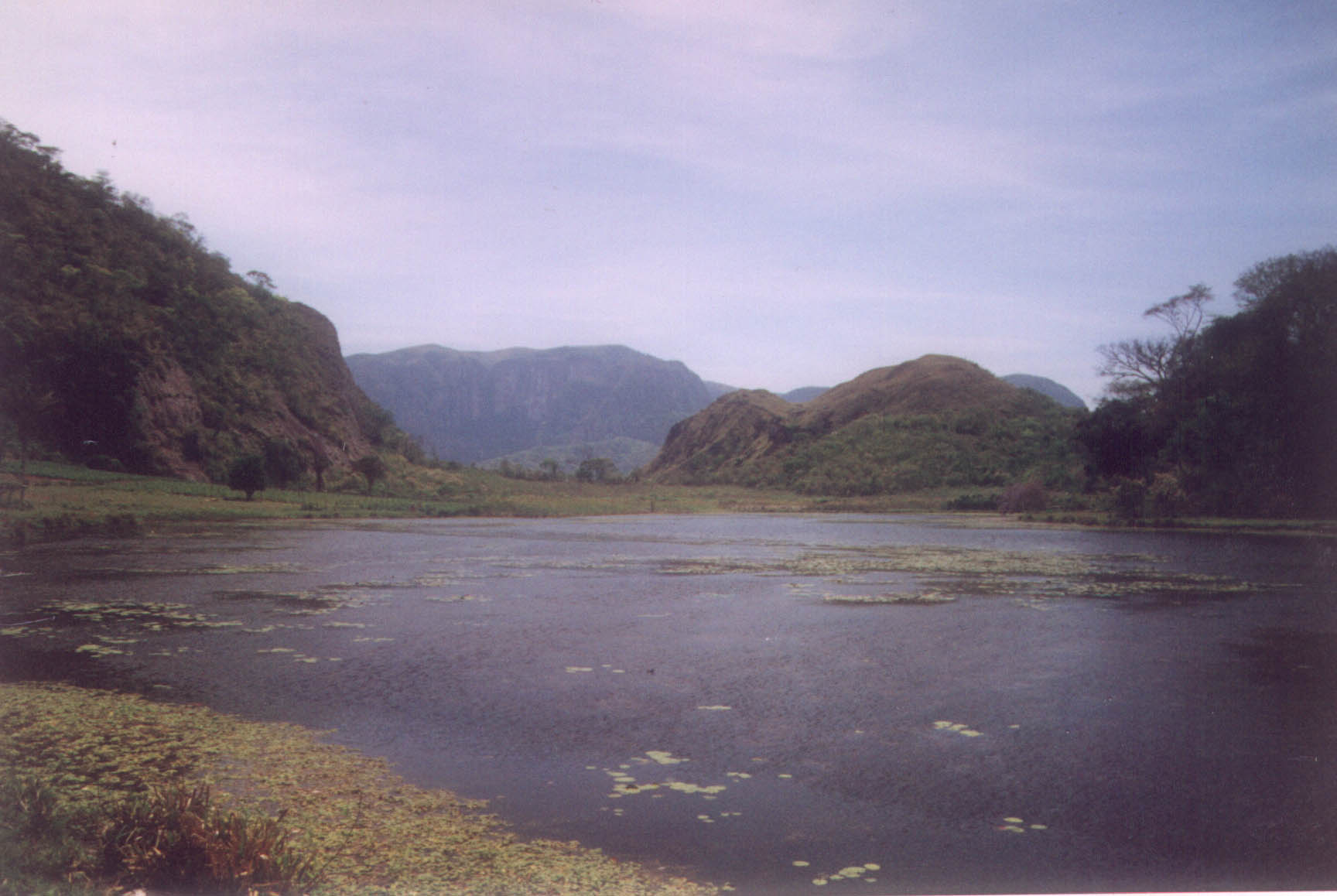 Laguna volcan, near Samaipata, Bolivia. Inside the crater. Cleft in the crater wall where the road enters.